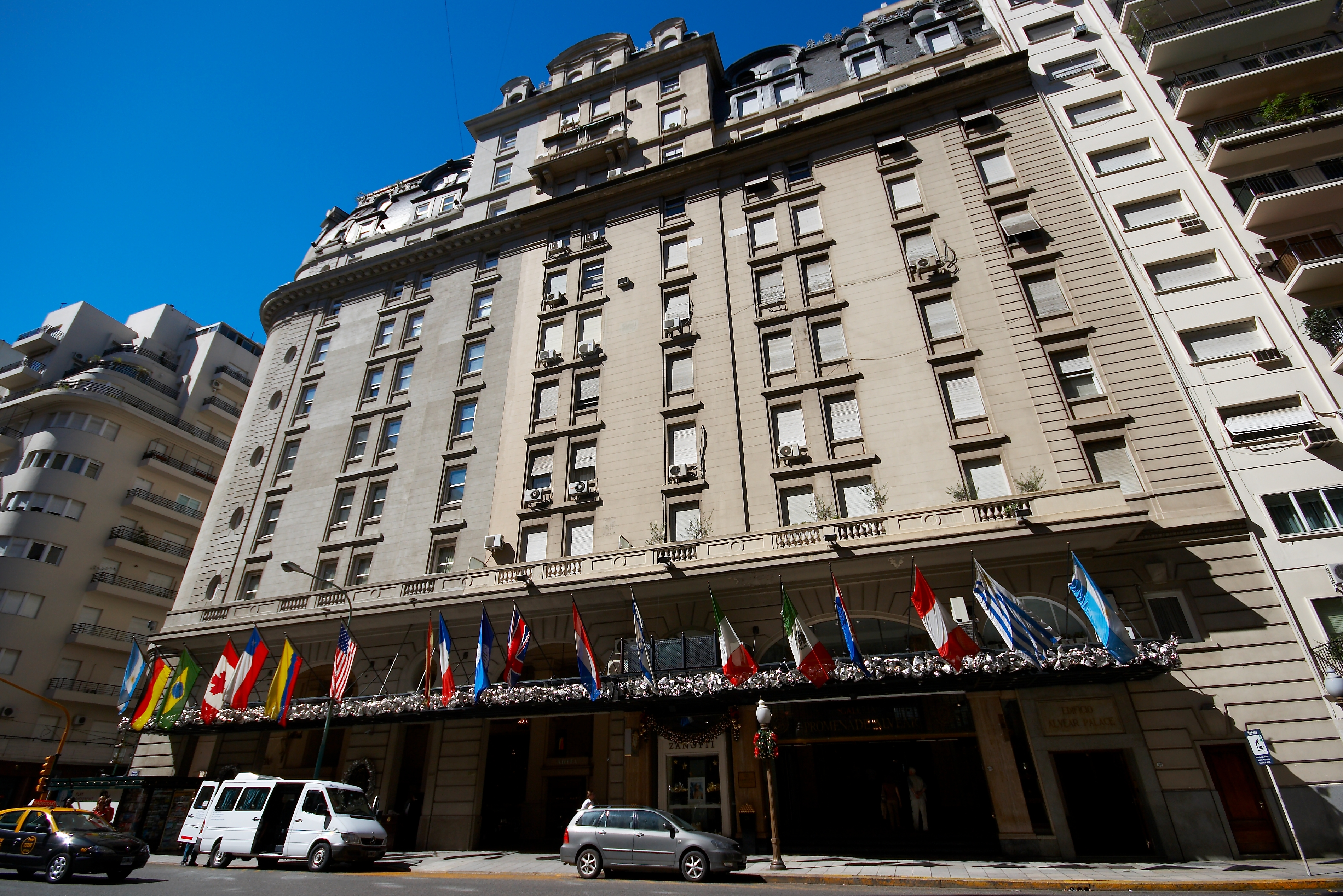 Alvear avenue, Buenos Aires, Argentina.